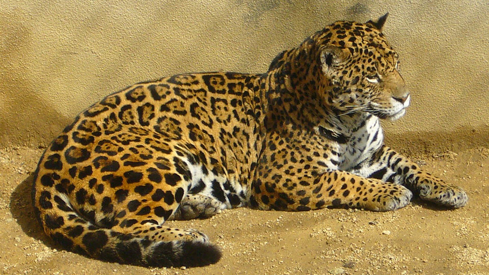 Jaguar (Panthera onca) in the Kobe Oji Zoo, Kobe, Japan